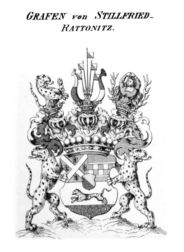 Wappen Stillfried Rattonitz 3 - Tyroff AT.jpg